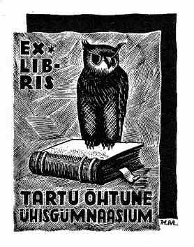 Ex Libris for Tartu Gymnasium.